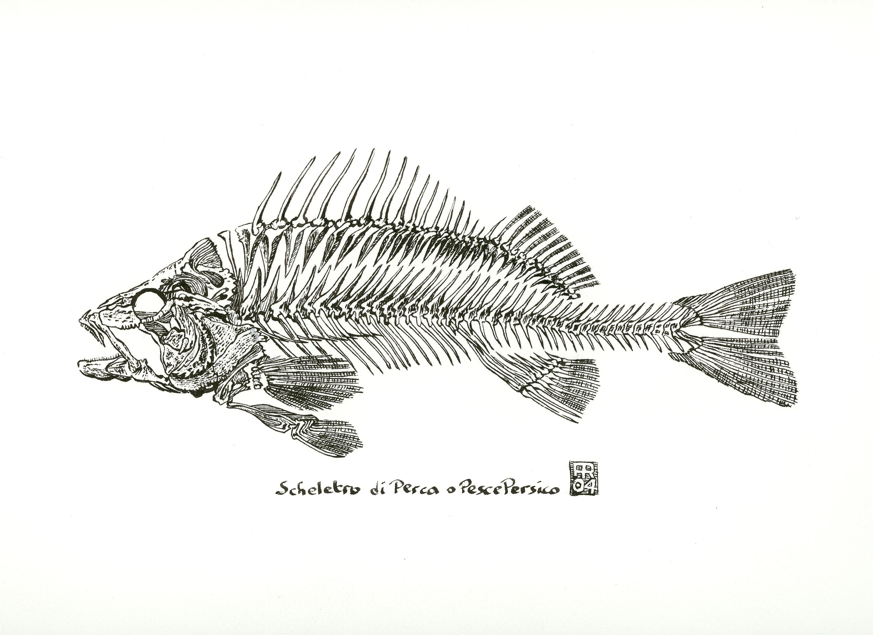 Persicus Perca. A reference image often found in oldest books. Author(Alberto Rava) is living in Italy and specializes in fish drawings for hobby. His drawings can be found on his website